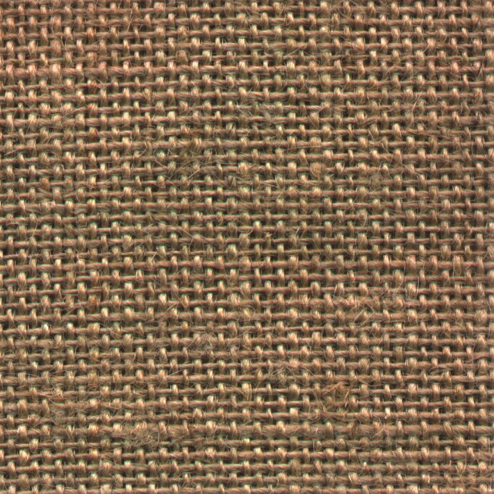 Hessian Fabric. It will serve to create a normal map in Blender.